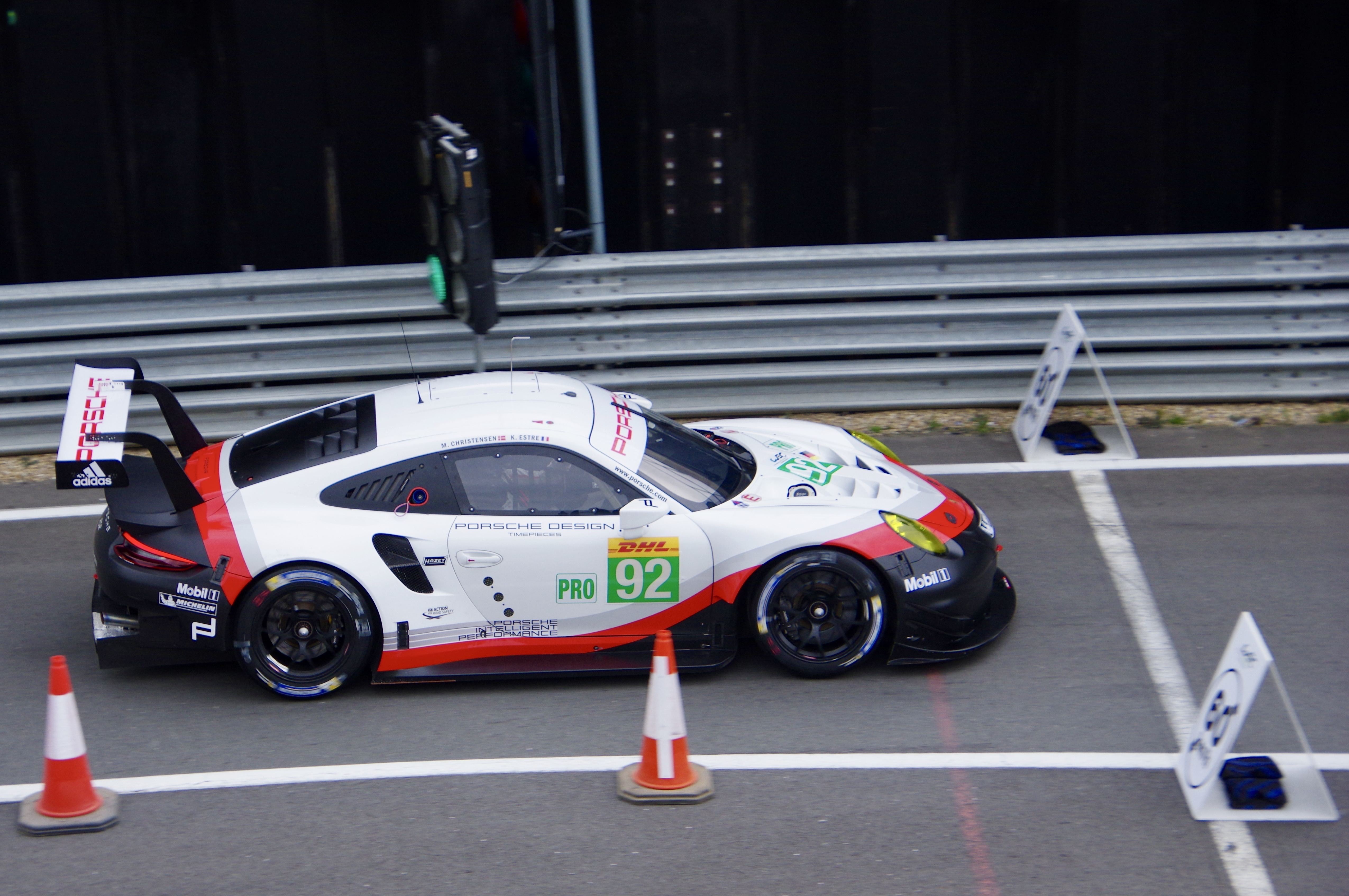 Porsche GT Team's Porsche 911 RSR Driven by Michael Christensen and Kevin Estre at the 2017 6 Hours of Silverstone.